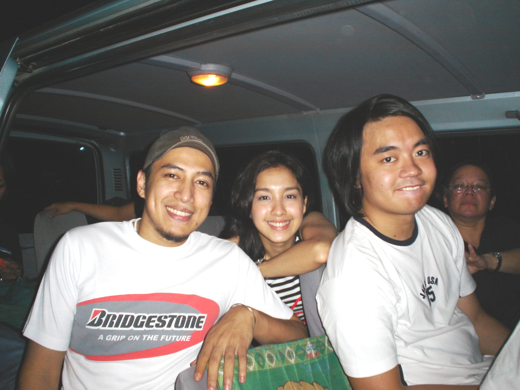 Barbie's Cradle's Barbie Almalbis, Wendell Garcia, and Kakoi Legaspi after their performance at the 2005 UPLB Febfair